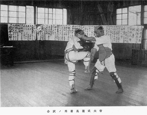 東京帝国大学の組手(Kumite of Tokyo Imperial University in 1929)